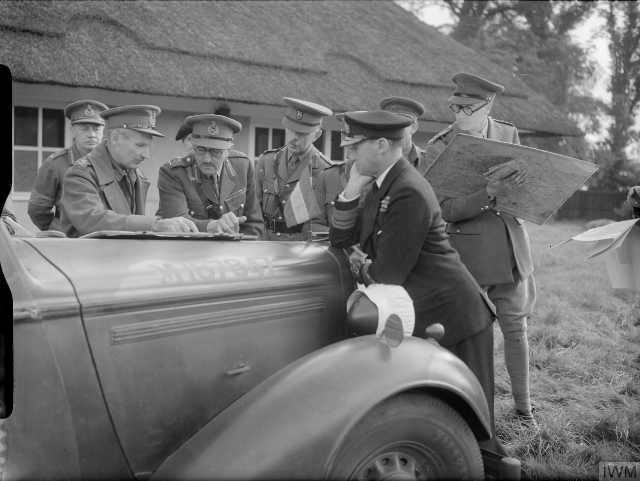 The British Army in the United Kingdom 1939-45 Senior officers discuss operations during Exercise 'Bumper', 2 October 1941. On the left the Chief Umpire, Lieutenant-General B L Montgomery, talks to the Commander-in-Chief Home Forces, General Sir Alan Brooke.